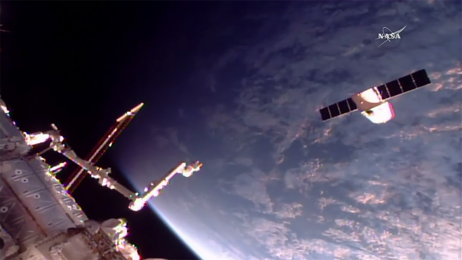 The SpaceX Dragon cargo craft is seen departing the space station after its release from the space station’s Canadarm2.